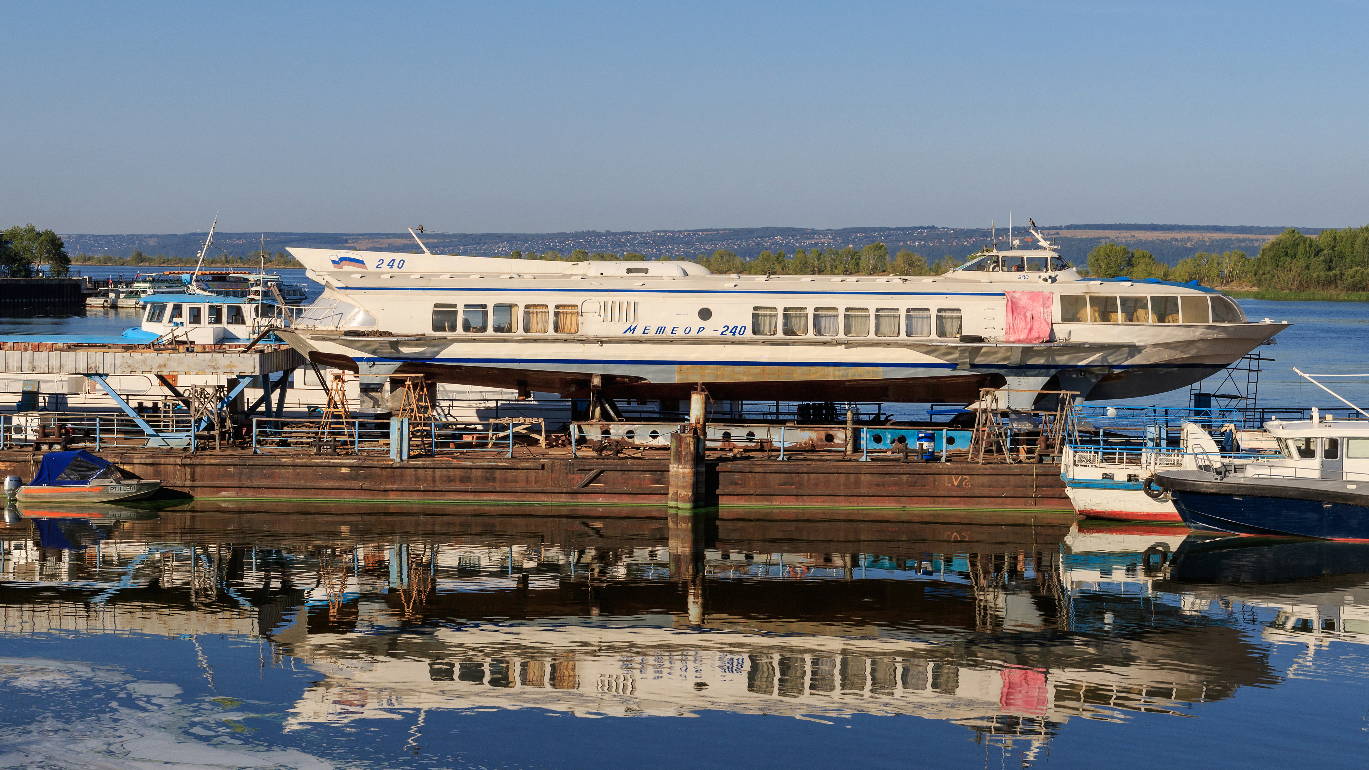 Floating dockyard at the Volga in Kazan, Russia